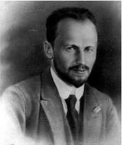 A portrait of Nikolai Bukharin published by Pravda.